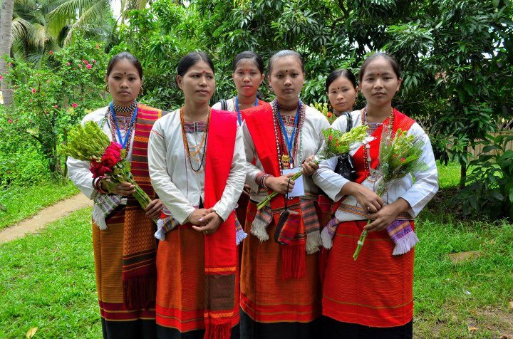 Some Tanchangya women holding flowers